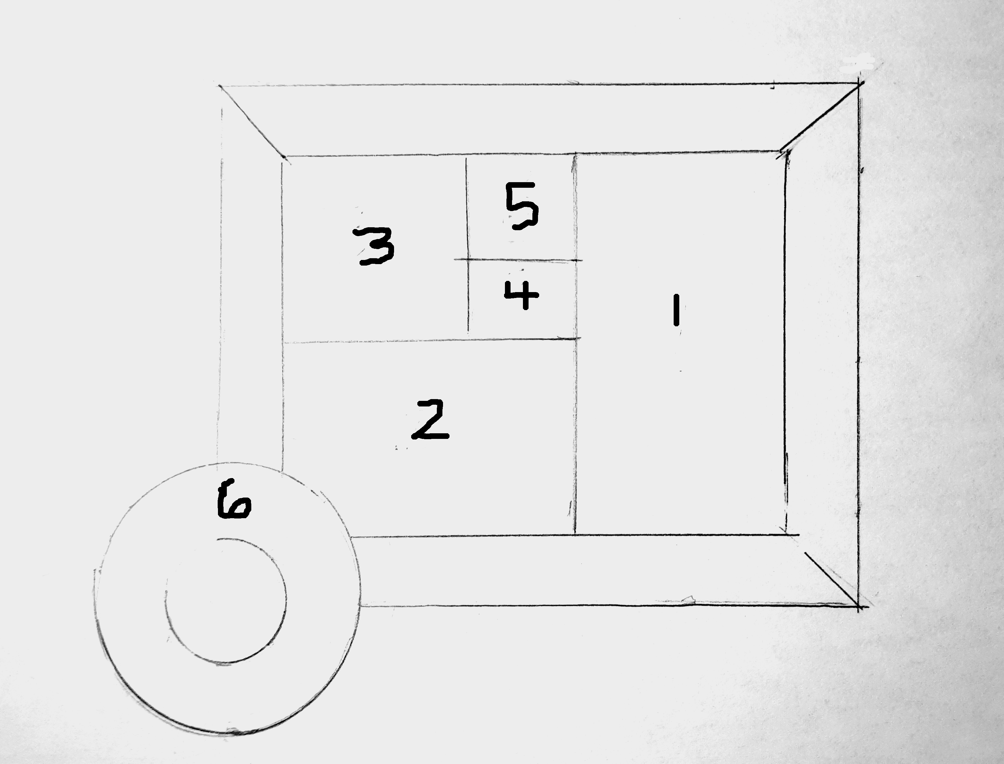 My own drawing of the floor plan of the Don Station, after scale drawings prepared by the Toronto Railway Museum, originally from a presentation given by Derek Boles, TRHA historian, May 2020. Rooms as follows: 1-Waiting Room 2-Office 3-Baggage Room 4-Hallway 5-Toilet 6-Conical Tower. The station measures 32' x 40'. The conical tower has a radius of 8'3" (drawing not to scale).